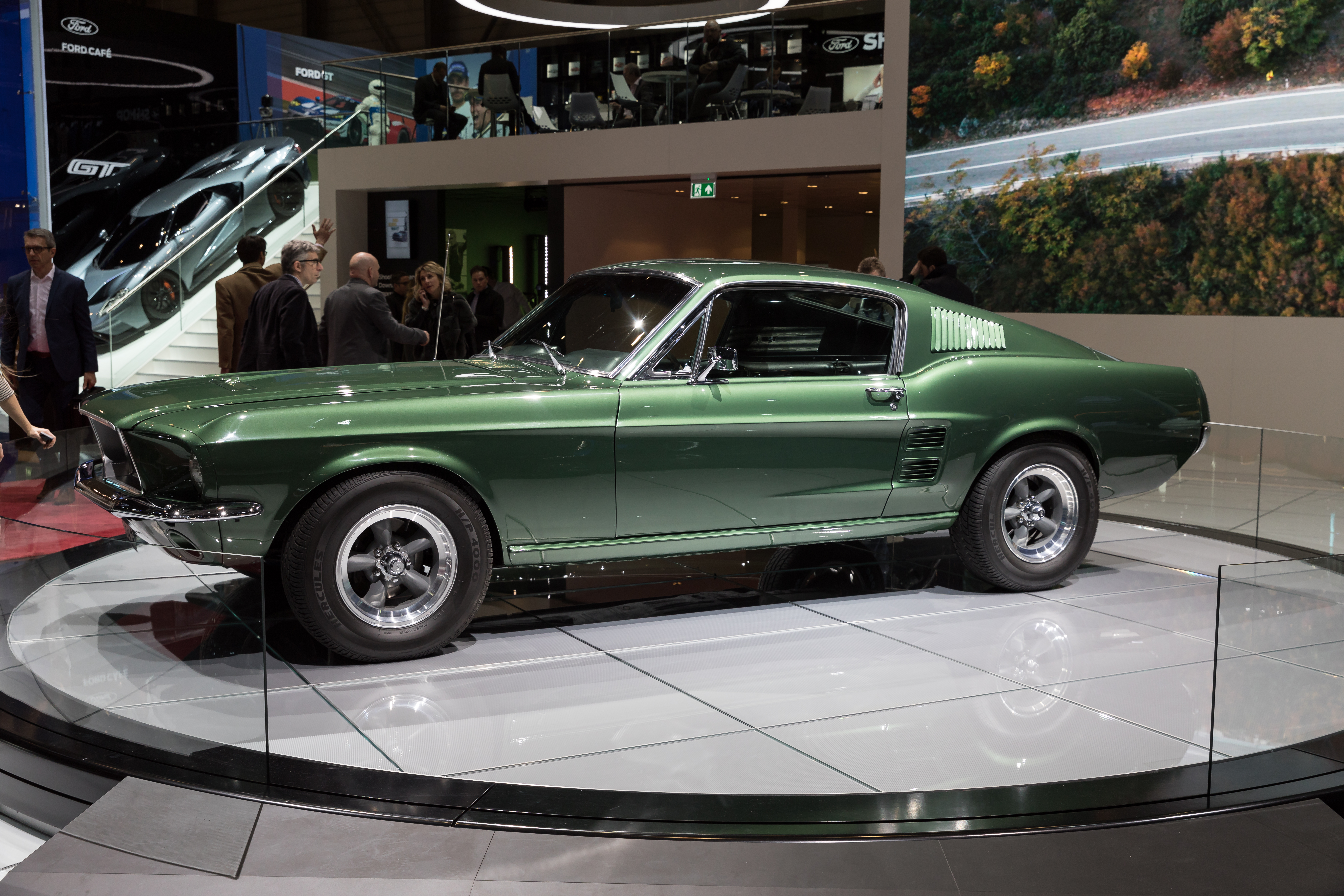 Geneva International Motor Show 2018